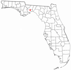 Created from existing maps on Wikipedia